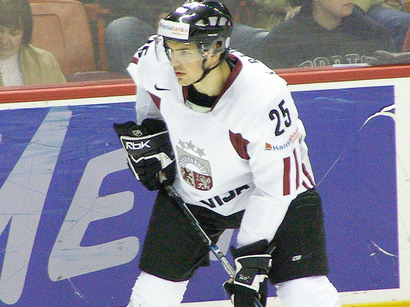 Krišjānis Rēdlihs /Latvia VS Norway (IIHF World Hockey Championship in Halifax NS, May 11 2008)/